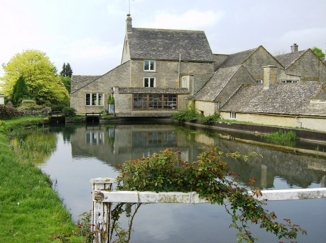 Hyde Mill The lake is formed by the damming of the River Dikler. It is crossed on a bridge that carries the Macmillan Way, the Gloucestershire Way and a popular local footpath to Lower Slaughter. Therefore this scene is probably photographed many times a day.